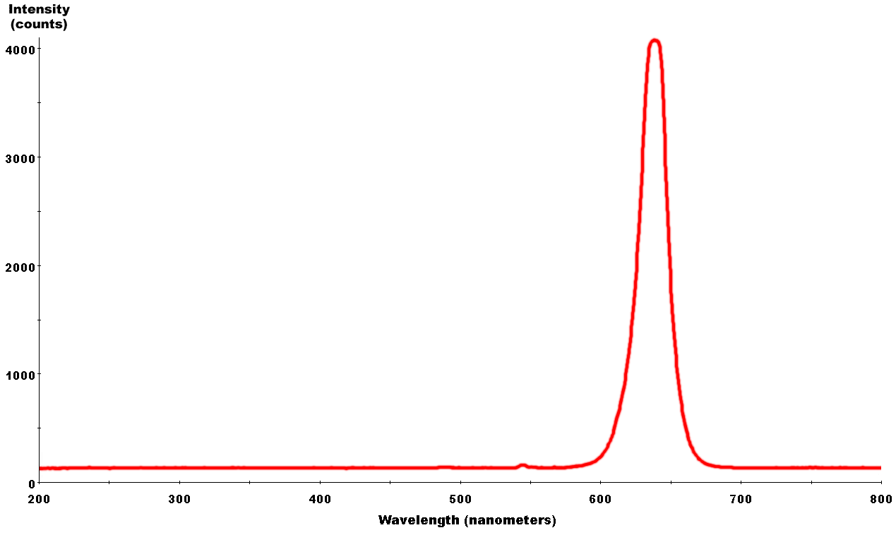 Spectrum of a red LED (on the bottom of a microsoft optical mouse). The spectrum has been cleaned up a bit in photoshop to anti-alias the curve but this has not appreciably changed the curve to any noticeable degree. I took this spectrum on an Ocean Optics HR2000 spectrometer [1].